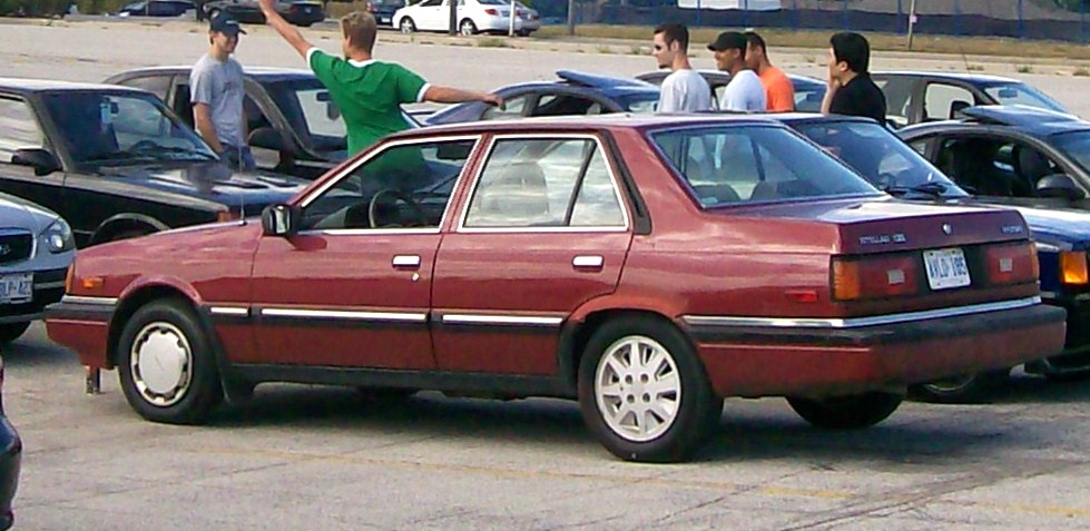 Hyundai Stellar (rebadged Sonata Y1 in Korea) rear